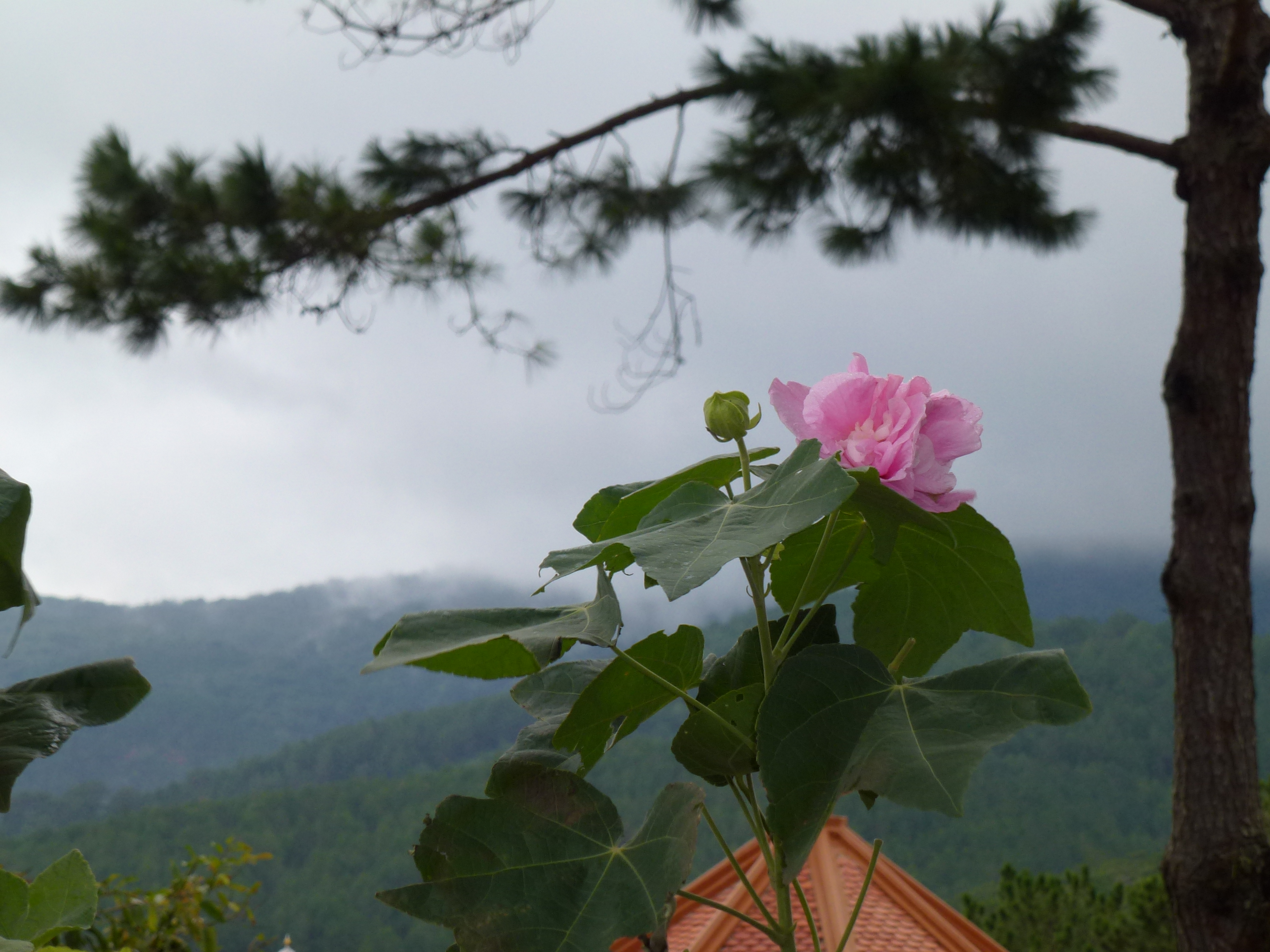 Hibiscus mutabilis in Da Lat city, VietnamTiếng Việt: Hoa phù dung tại Đà Lạt